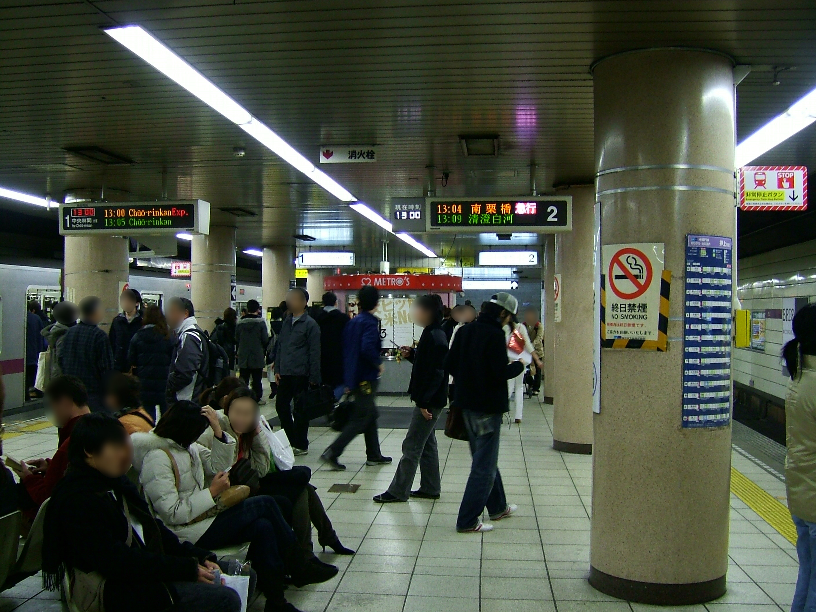 The platform at Shibuya Station (Tokyo Metro Hanzomon Line, Tōkyū Den-en-toshi Line)